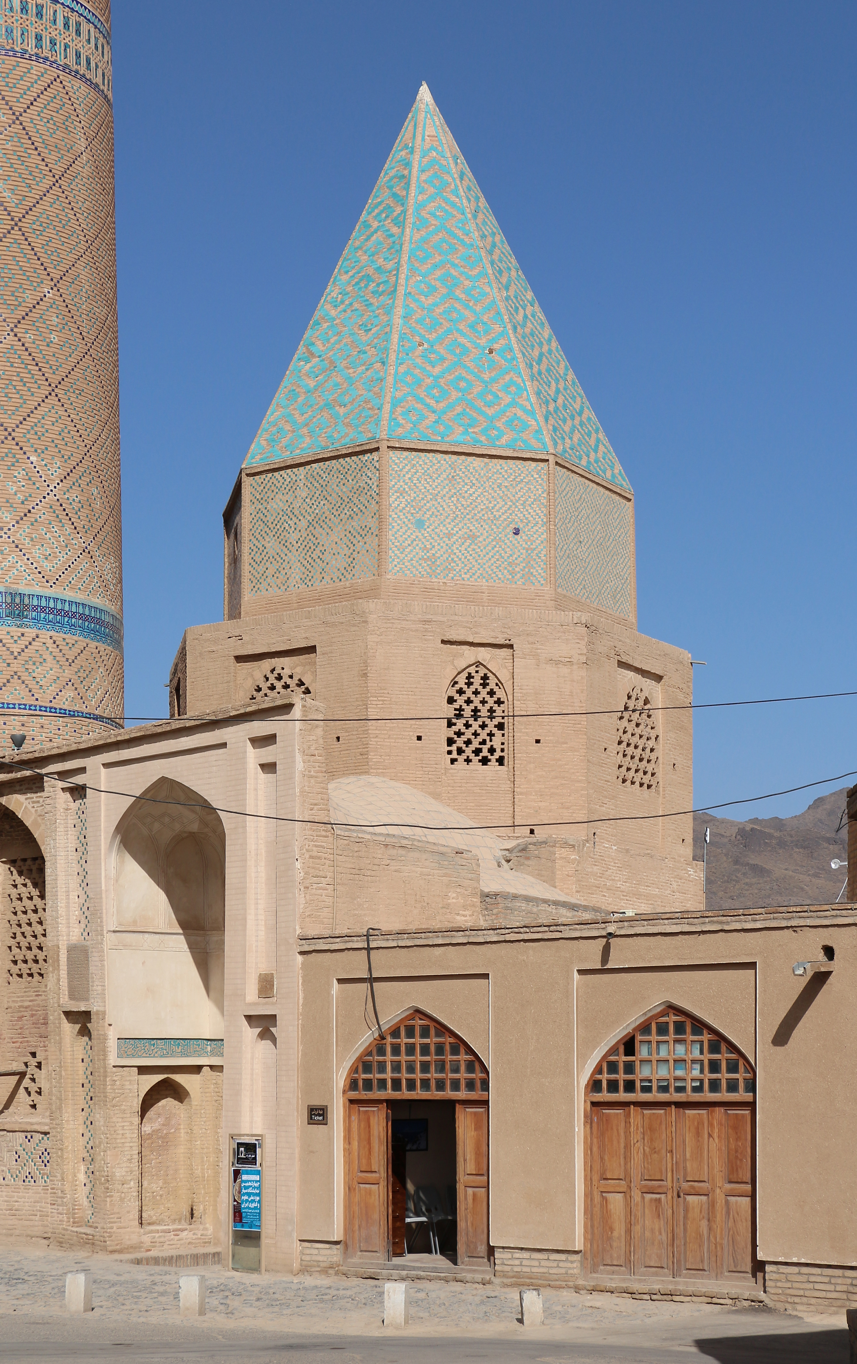 Shrine Complex of Sheikh 'Abd al-Samad, Natanz, Iran